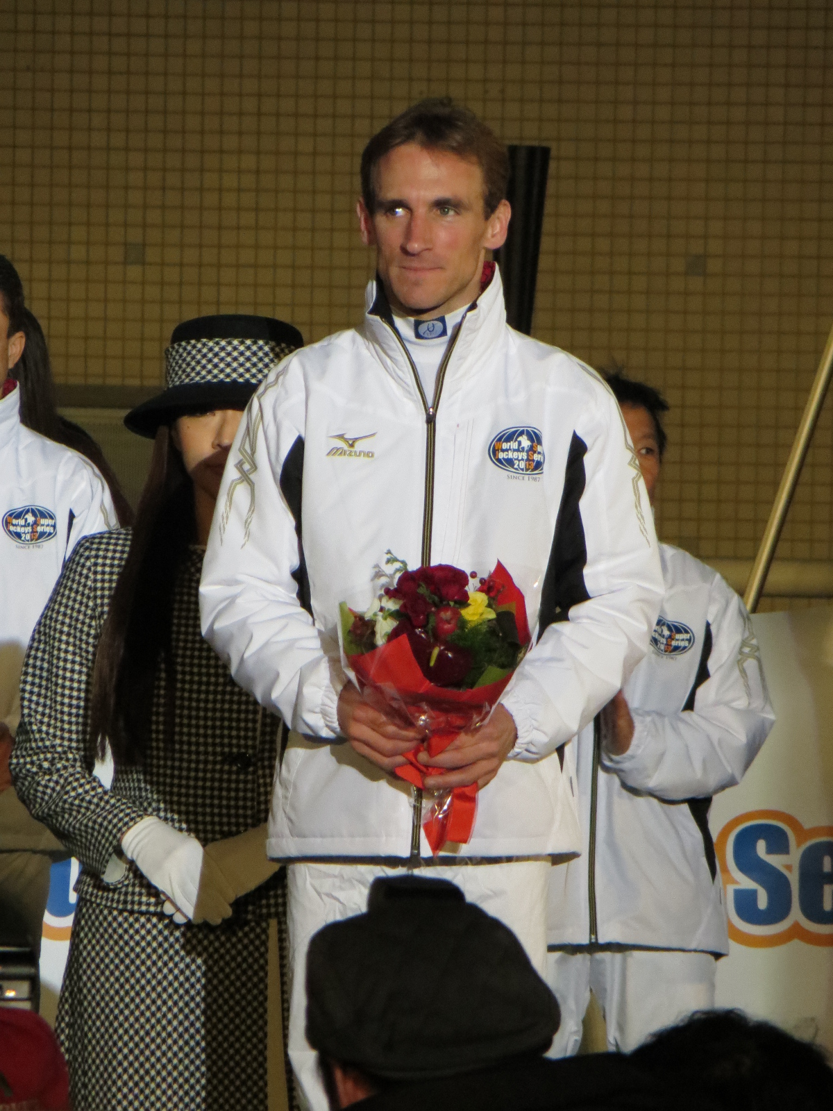 Andrasch Starke (German jockey) in Hanshin Racecourse.